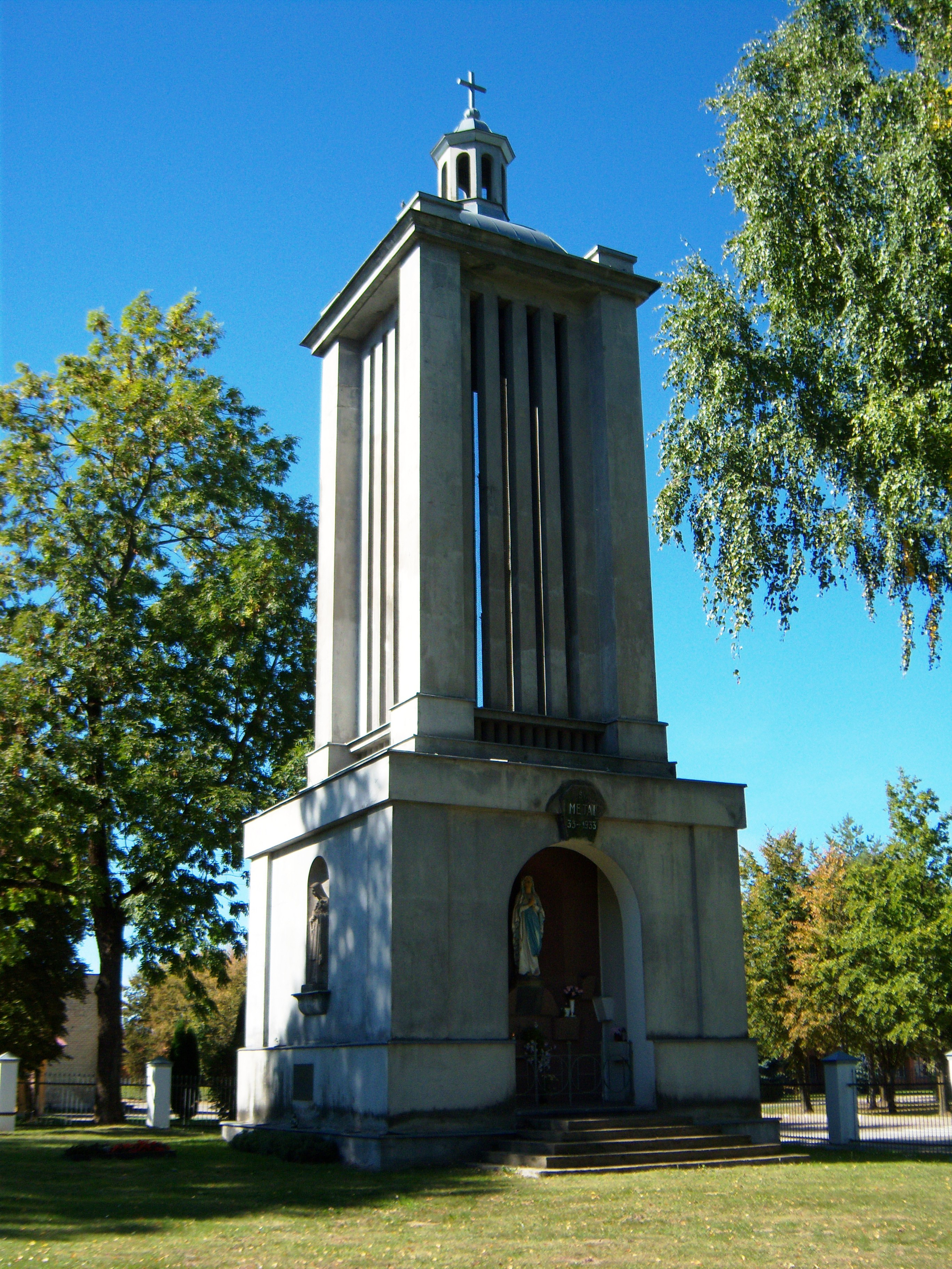 Catholic church in Griškabūdis, bell tower, Šakiai District, Lithuania